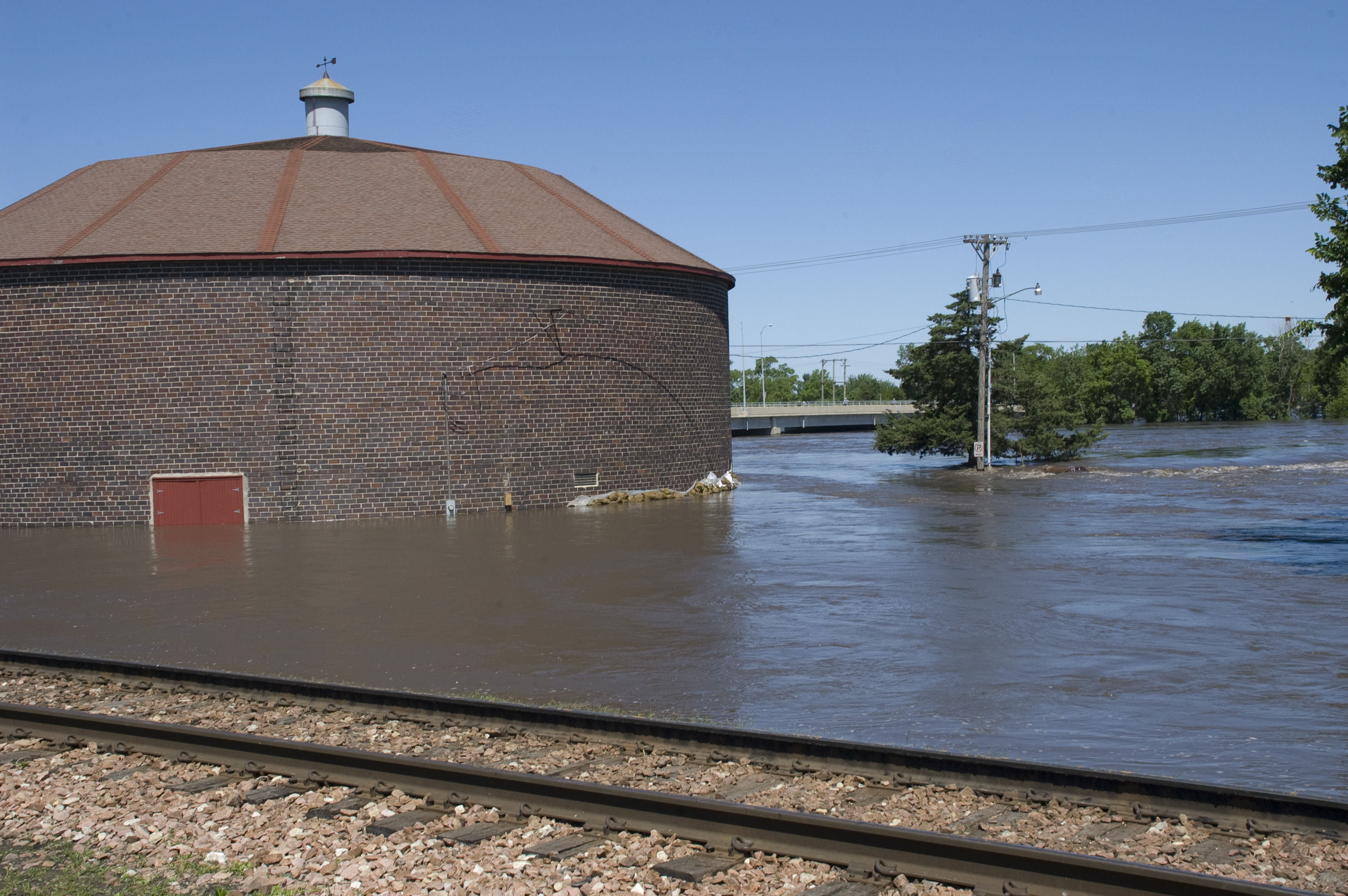 Cedar Falls, IA, June 10, 2008 -- The Cedar River rose to a record high of 102 feet, endangering the town of Cedar Falls, IA. Storms have inconvenienced many people throughout Iowa. Photo by Patsy Lynch/FEMA Photo by Patsy Lynch/FEMA